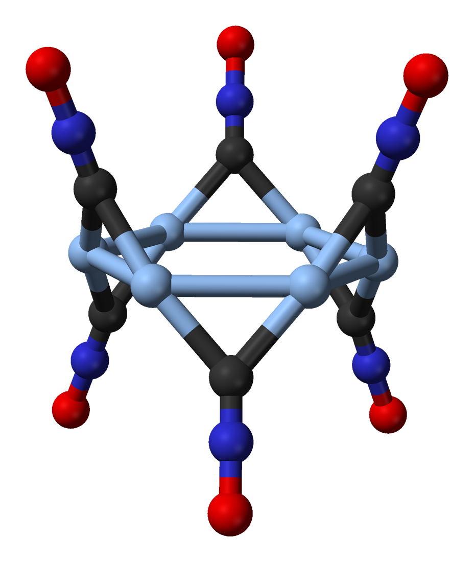 Ball-and-stick model of a cyclic hexamer, (AgCNO)6, in the crystal structure of silver fulminate, AgCNO. X-ray crystallographic data from D. Britton (December 1991). "A redetermination of the trigonal silver fulminate structure". Acta Cryst. C47 (12): 2646-2647. Image generated in Accelrys DS Visualizer.